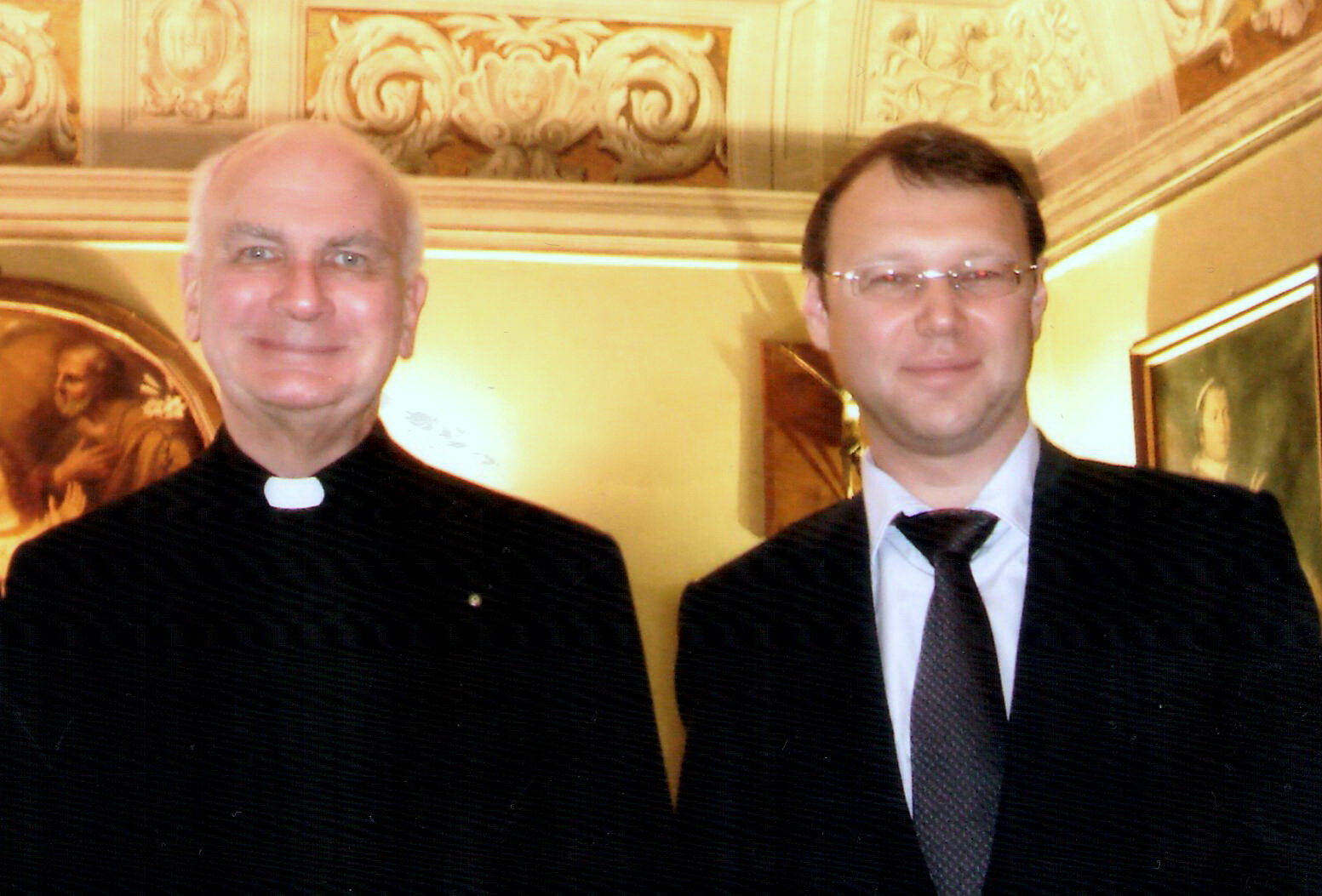 Grand Master of the Order of the Holy Sepulchre, Cardinal John Patrick Foley with Magistral Delegate to Russia Yaroslav Ternovskiy.